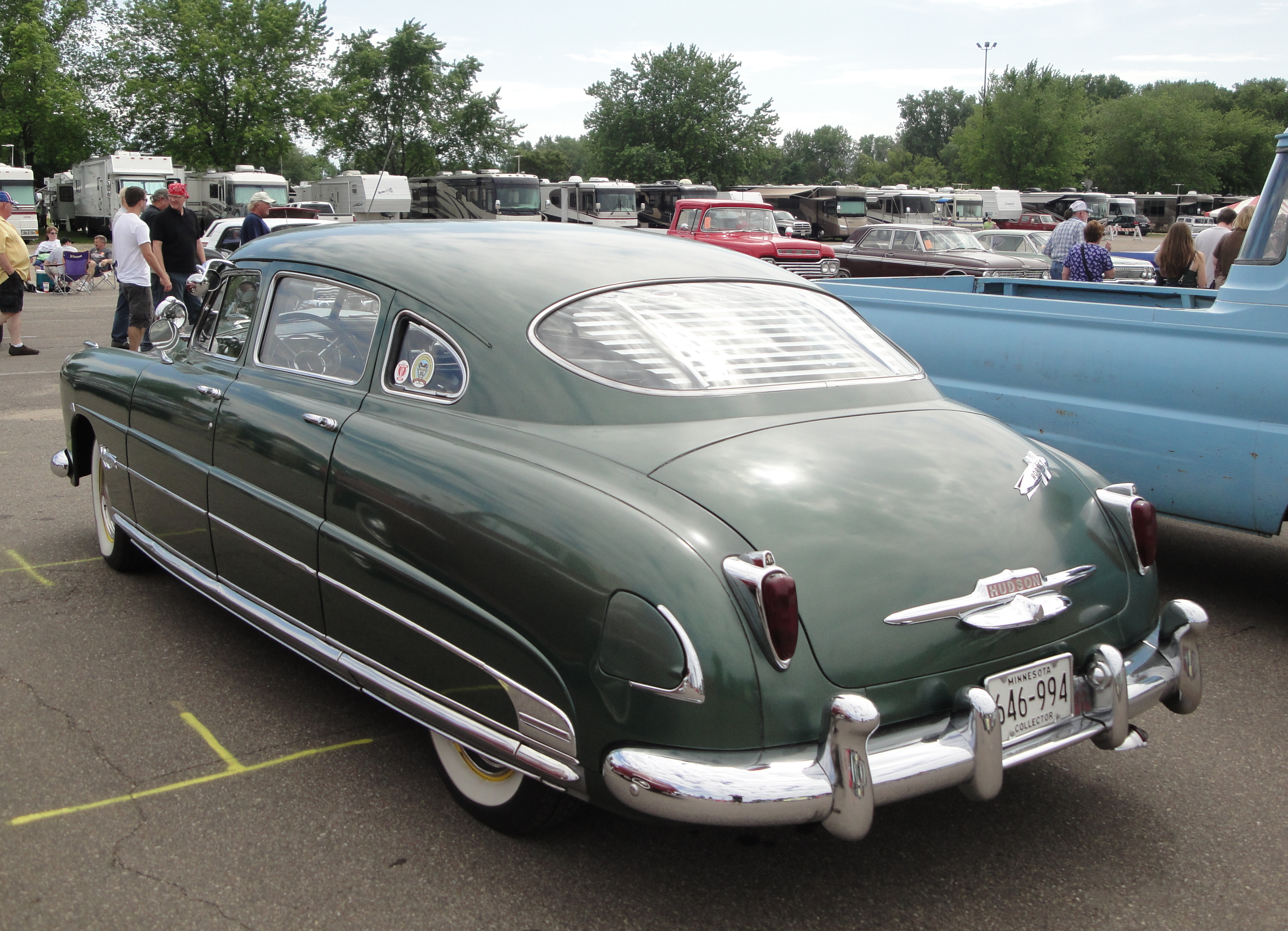 Minnesota Street Rod Association 39th Annual "Back to the Fifties" June 2012 Minnesota State Fairgrounds St. Paul MN